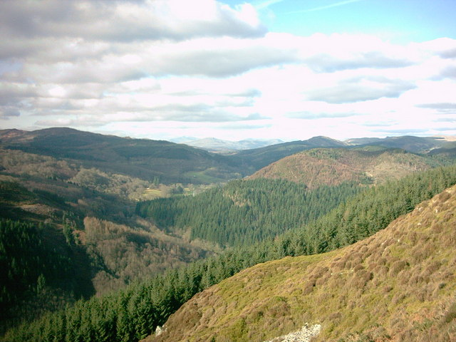 Coed Y Brenin. On a clear day it's possible to see the towers of Trawsfynnydd Power Station from the Northern end of Precipice Walk.